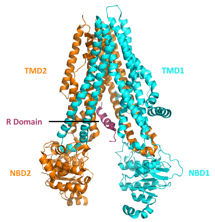 TThe Overall Structure of Human CFTR in the Dephosphorylated, ATP-Free Conformation. Transmembrane domains, nucleotide binding domains, and R domain are labeled. Based on PDB 5UAK.